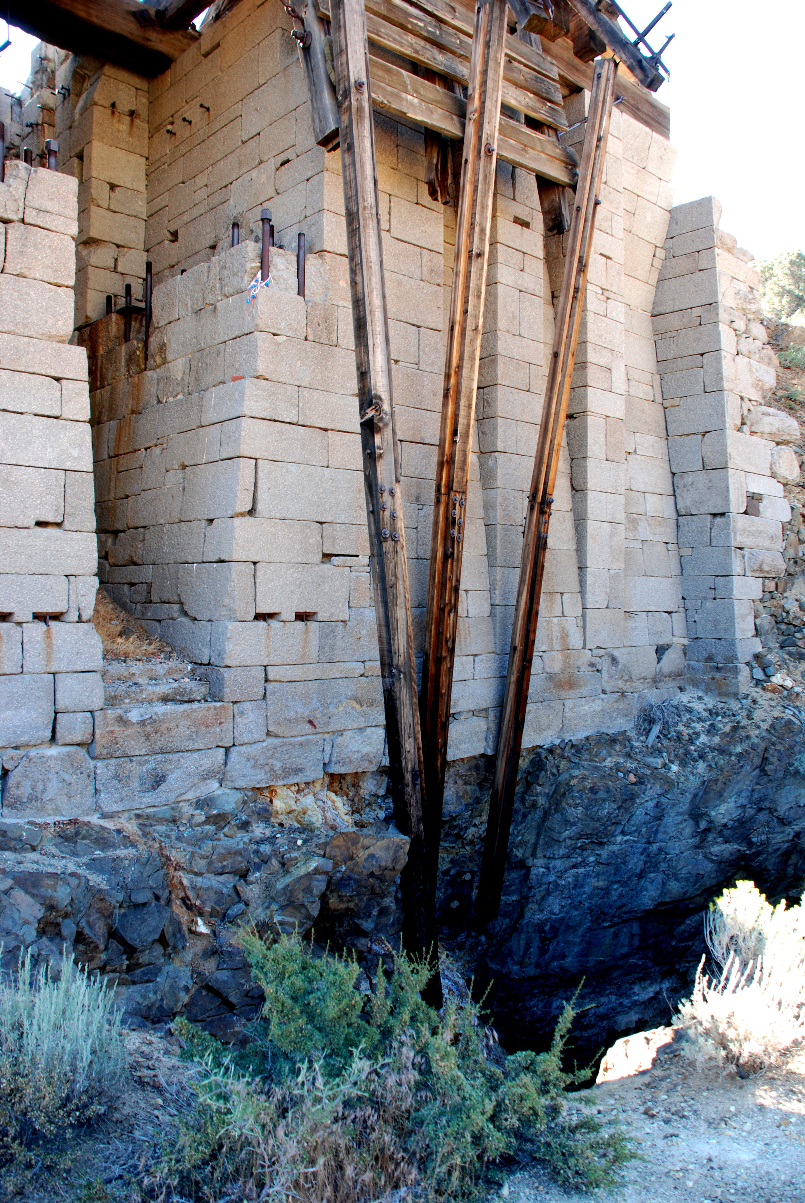 The Combination Shaft, located near Virginia City, began in 1875 when the owners of the Chollar-Potosi, Hale & Corcross and the Savage mines combined their efforts to sink a shaft to explore the Comstock Lode at a greater depth. The Combination was the deepest shaft ever sunk on the Comstock, reaching a depth of 3,250 feet. This photograph shows the opening to the shaft as it appeared in 2012 before the closure work began. The scorched beams are relics of the fires that burned the shaft collar and timbers in the 1950s. The fire was reportedly caused by a stolen sports car that was torched and pushed into the shafts. Other accounts say the scorching was caused by lightning.